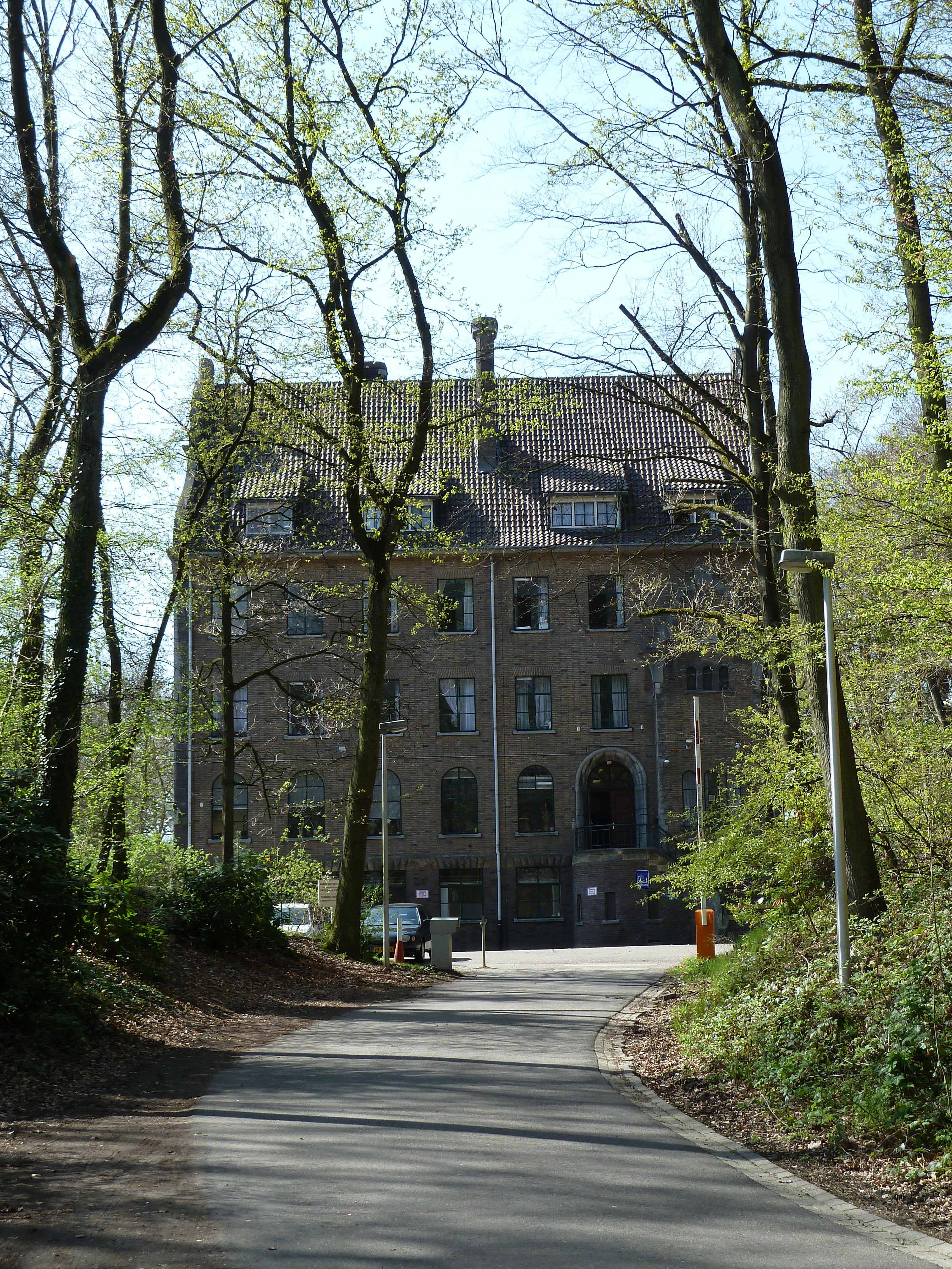 Moorheide 1, Sweikhuizen, Limburg, the Netherlands